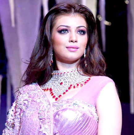 Ayesha Takia walk the ramp for IIJW 2010 finale